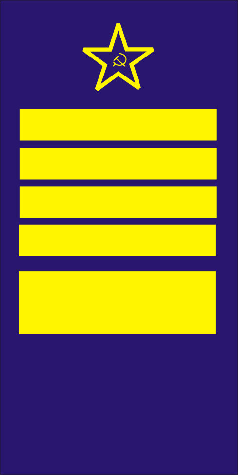 Rank badge of Fleet Admiral of the URSS– Cuff